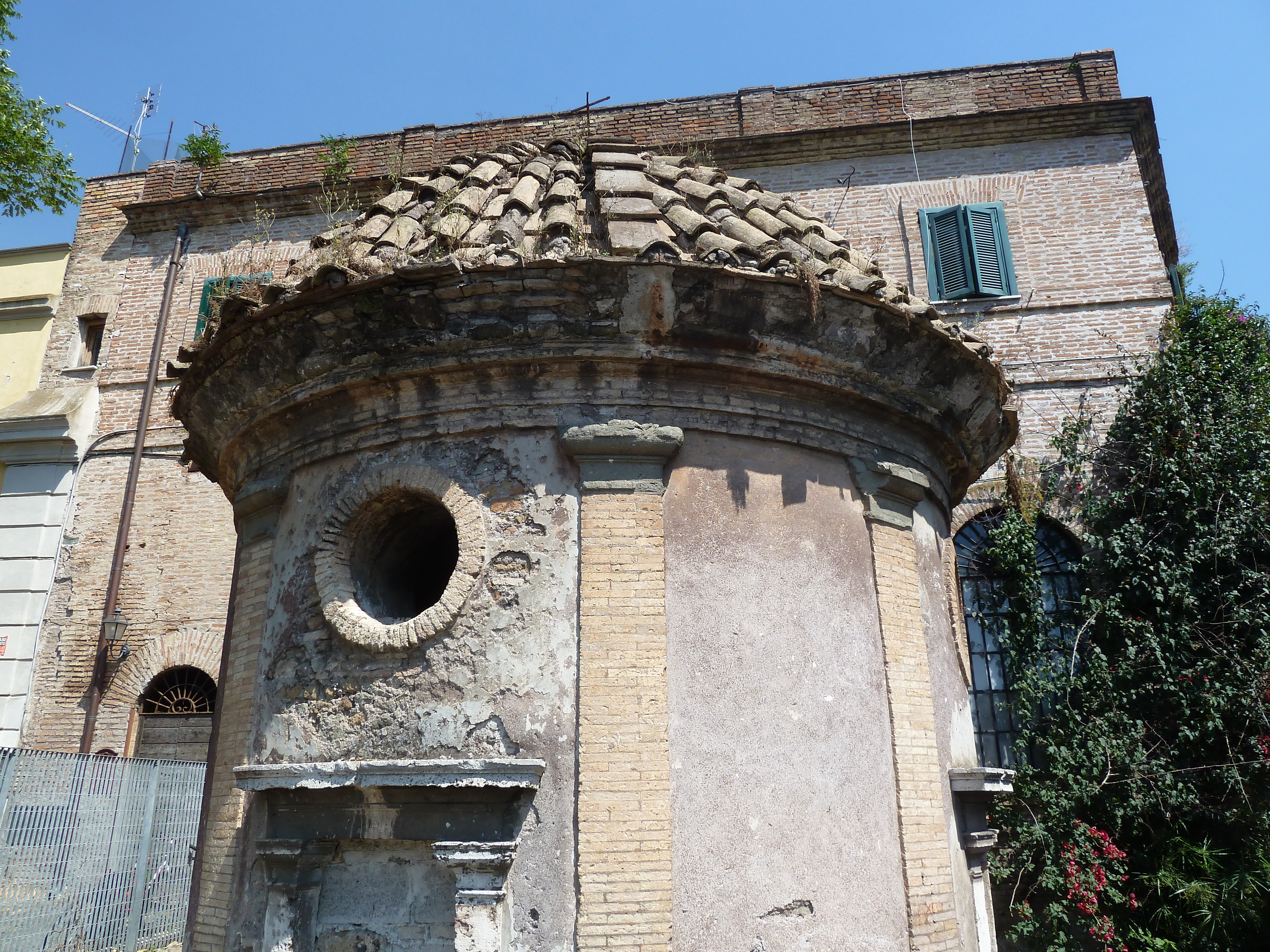 Cappella di Reginald Pole.Via Appia Antica, Rome The circular chapel of Reginald Pole, at the crossroad between the Via Appia Antica and Via della Caffarella, just before the second mile of the Appian way. The chapel has two doors, now walled up with blocks of tuff, with jambs and lintels, yellow travertine brickwork used for the 4 circular windows and 8 faux columns with Corinthian capitals and bases in peperino, and a domed cuspidata covered by tiles. It was built in 1539 by the English Cardinal Reginald Pole in exile in Rome during the reign of Henry VIII after the Cardinal sided with Pope Paul III and opposed the new Church of England.